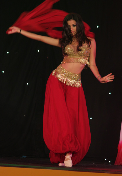 Miss Lebanon 2008 Rosarita Tawil dancing in the talent show of Miss World 08